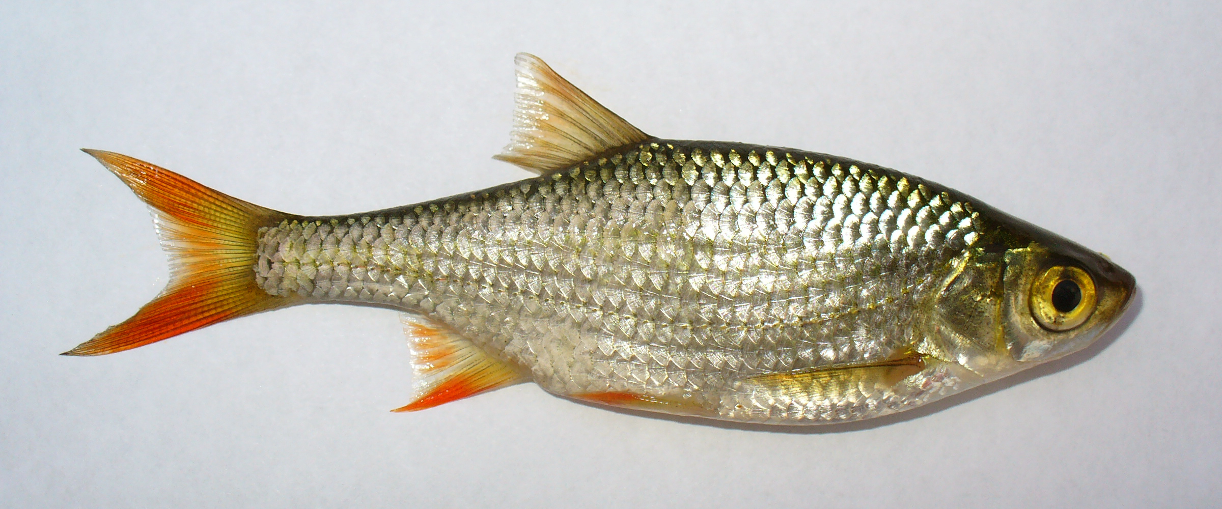 The Common Rudd (Scardinius erythrophthalmus). Ukraine, the fish from the Southern Bug river.